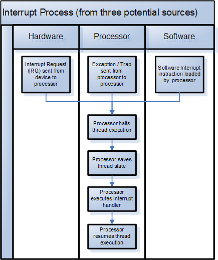 Regarding computer science, this depicts three sources of interrupts and the handling by the processor.